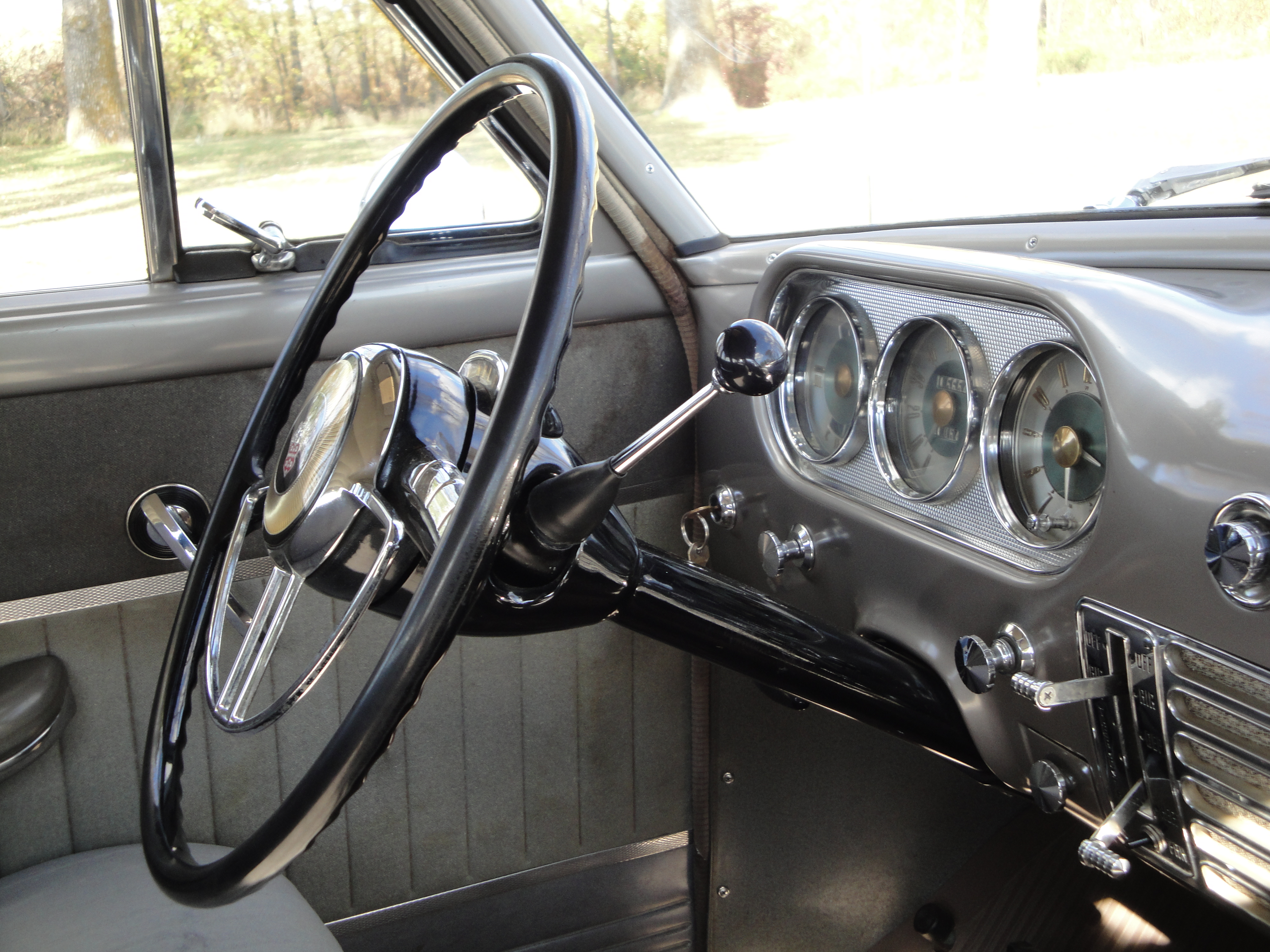 Now that Bud is mostly done with Ruby, his and Sharon's 52 Buick, he has started some crazy talk about selling his 51 Packard. I asked if I could get some pictures before the Packard is gone.